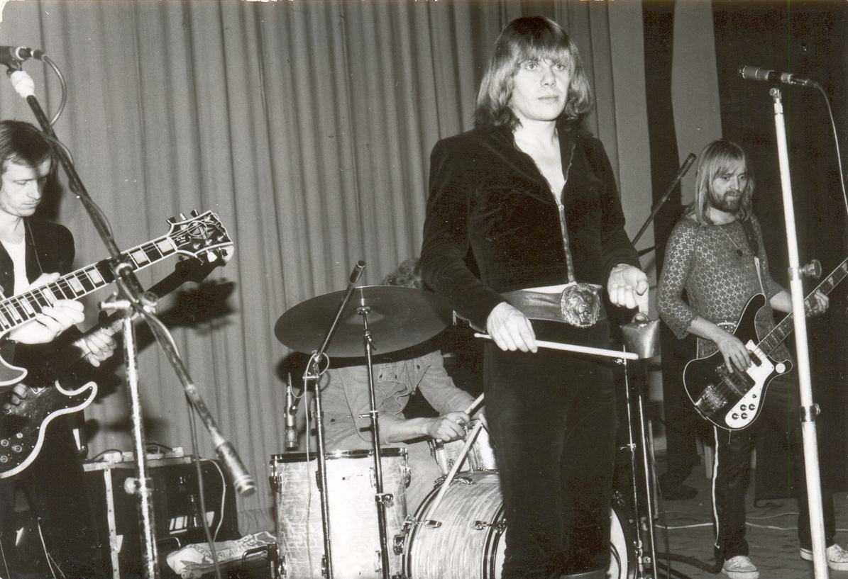 Czech musican Jiří Schelinger, left is his brother Milan Schelinger